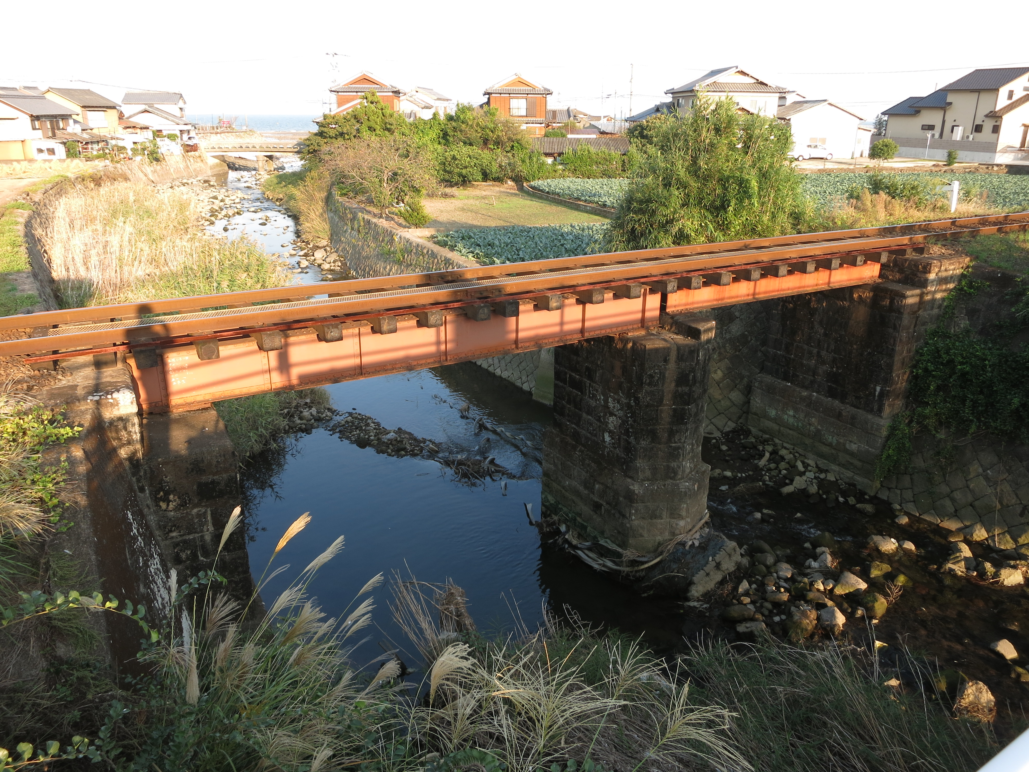 Girder bridge 1